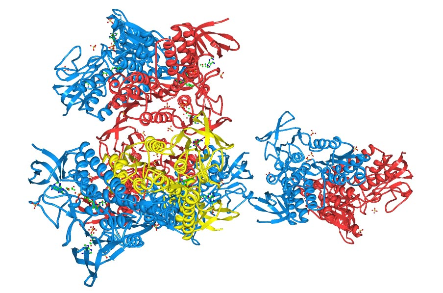 Estructura tridimensional de 3 unidades de dihidrolipoildeshidrogenasa.